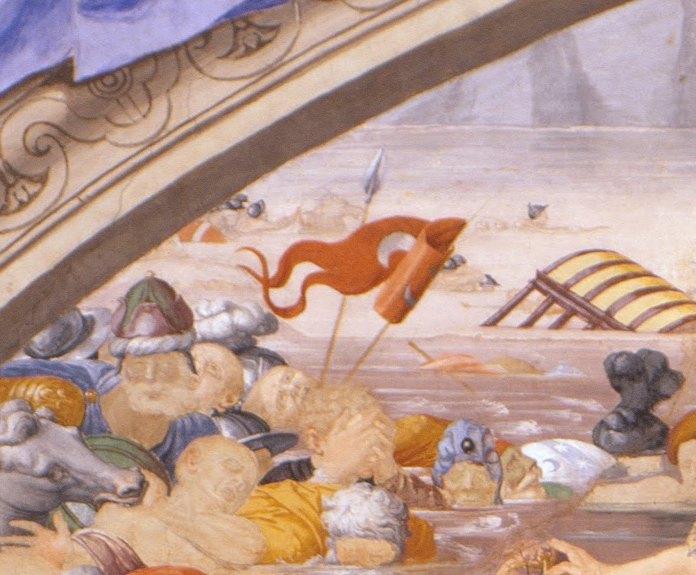 An allusion to the defeat of the Strozzi family and other factions in the battle of Montemurlo (1537) by the Medici.